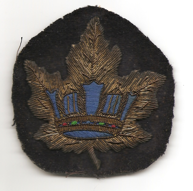 Badge worn by sailors on HMCS Fredericton (K245)